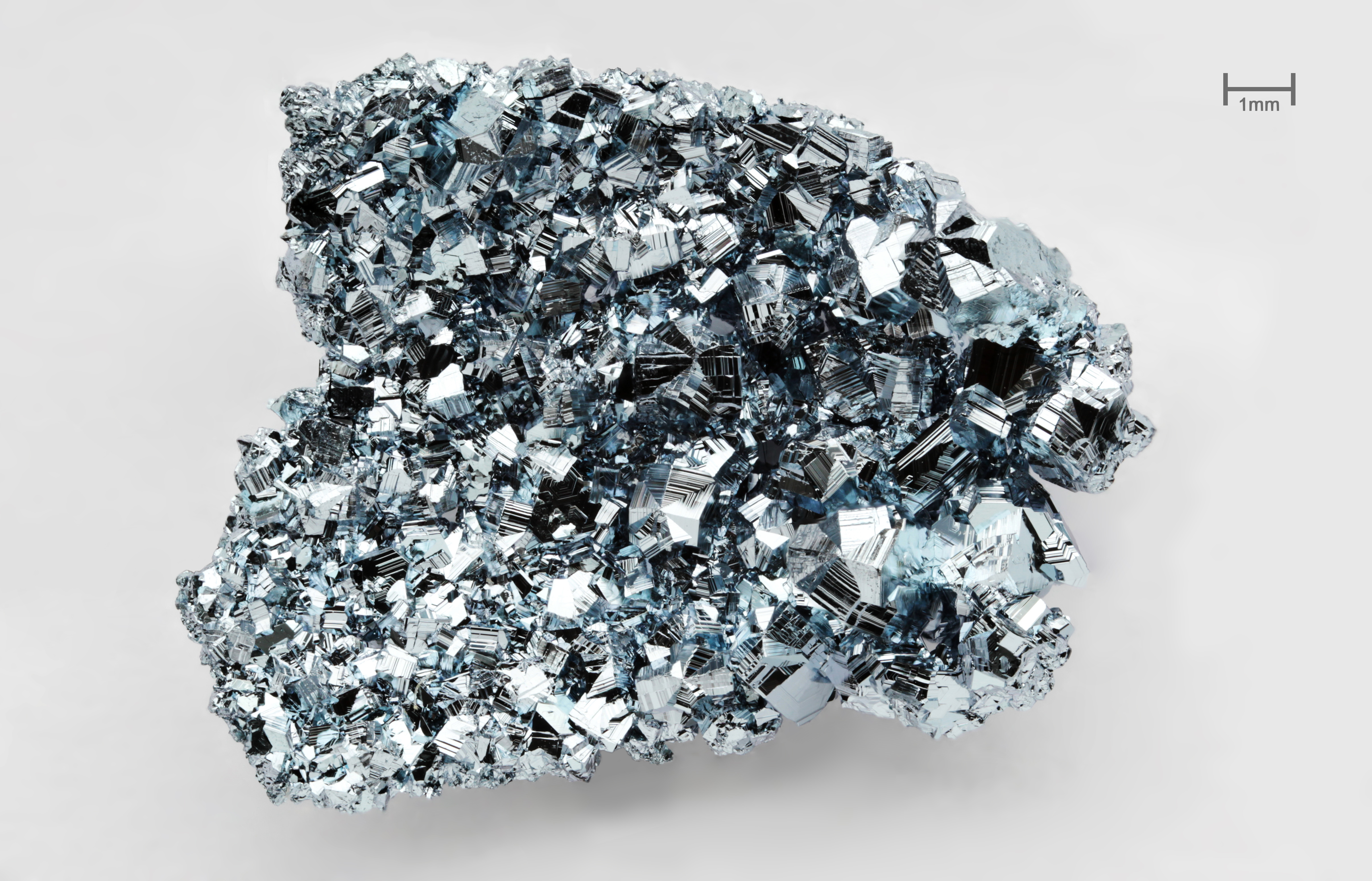 Osmium Os, crystals, purity ≥ 99.99%, 2.2 g. Produced by chemical transport reaction in chlorine gas